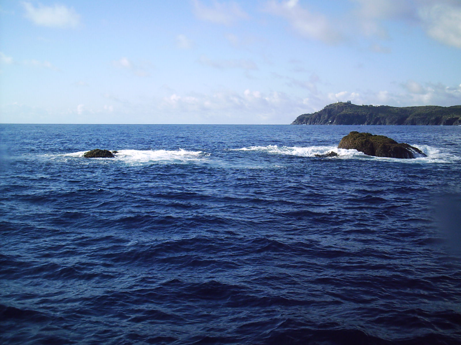 Image of Wolf Rock, picture taken from the deck of the vessel 'Big Cat Reality'